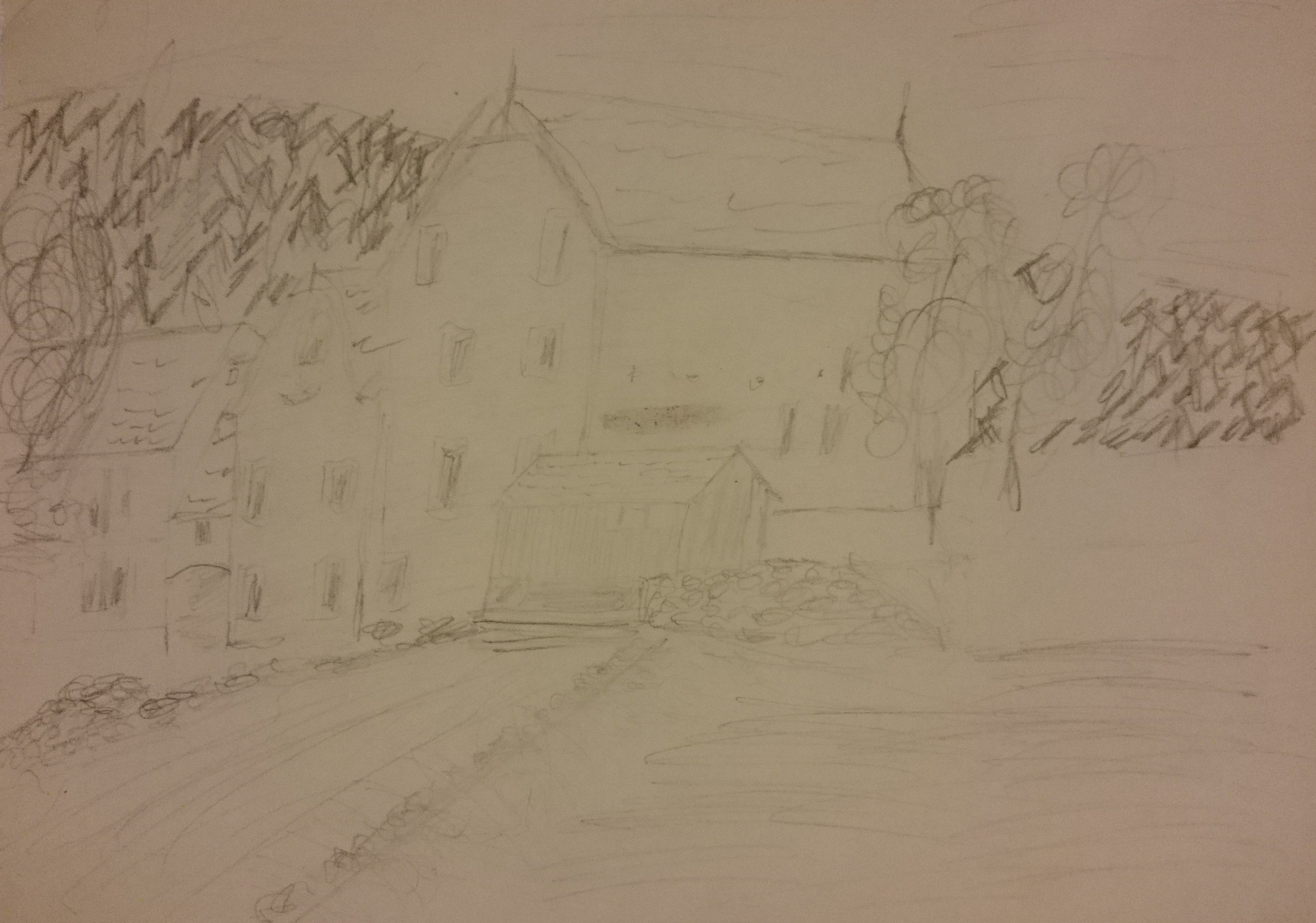 Tlučka watermill from the front around 1927.